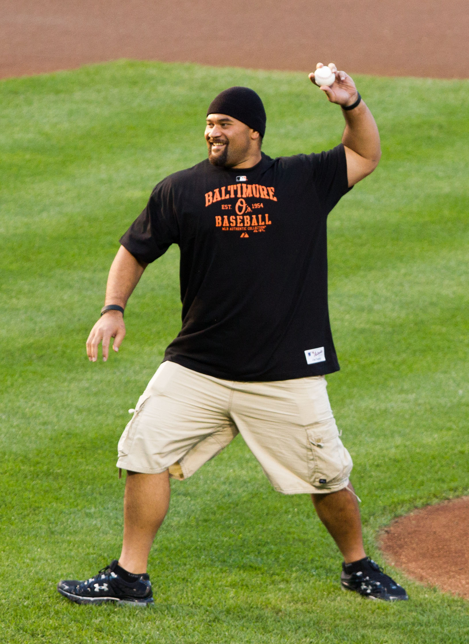 Baltimore Ravens defensive tackle Haloti Ngata throws out the first pitch before a game between the Chicago White Sox and the Baltimore Orioles at Oriole Park at Camden Yards on August 28, 2012.